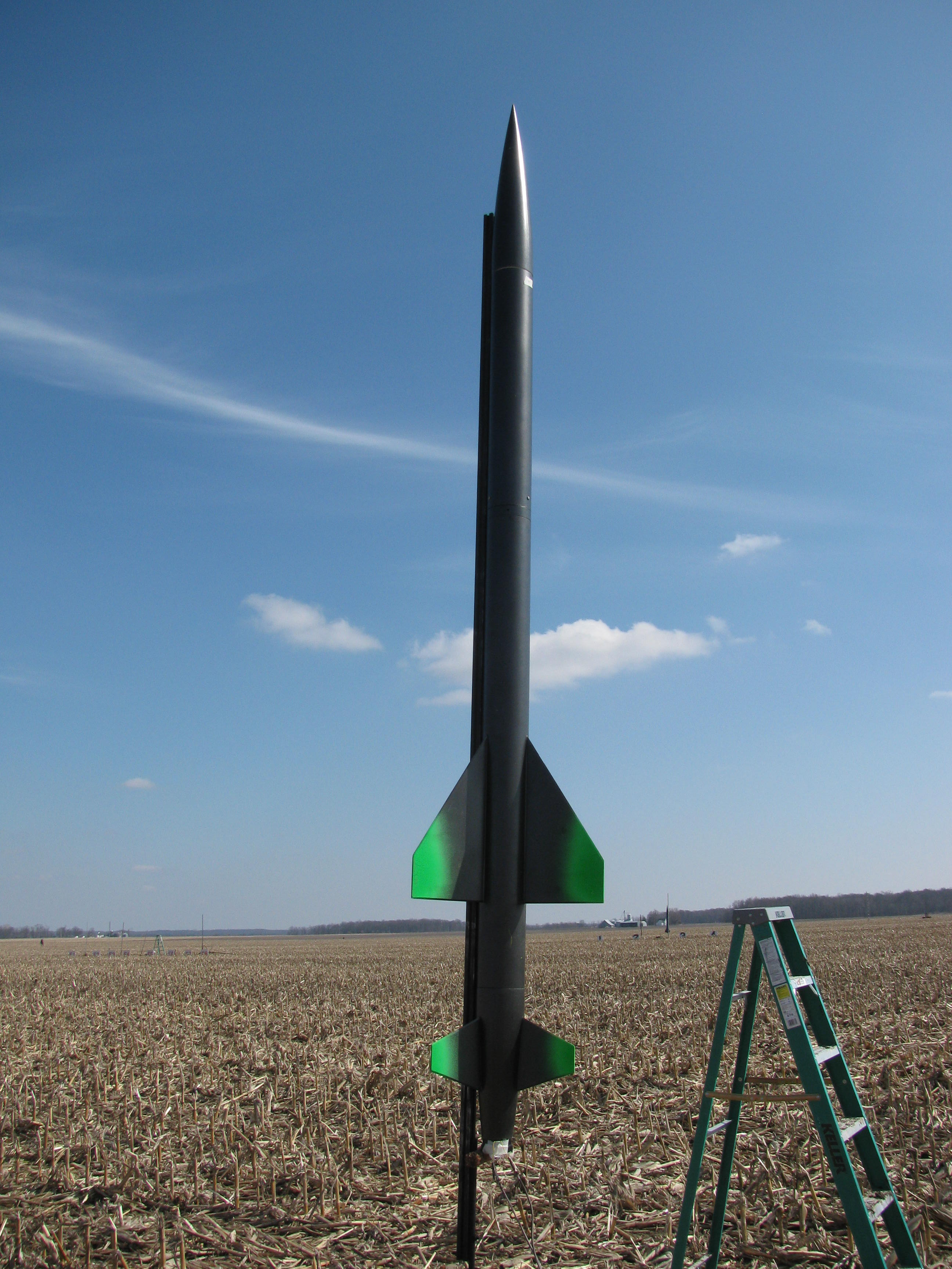 Eagle Claw ready for Flight #7 on a KBA K750 to 7040'